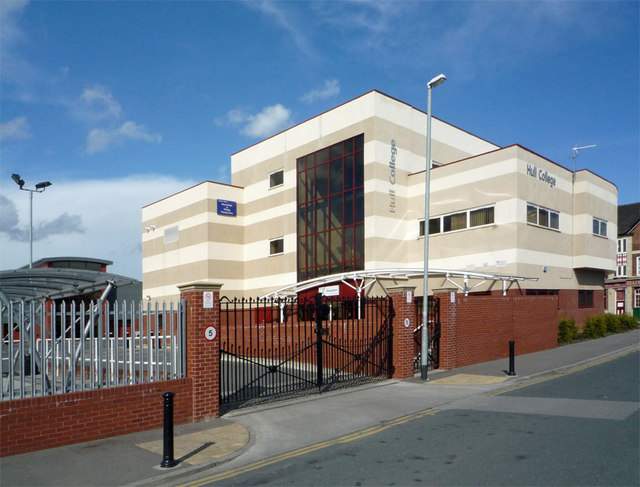 Hull College, Cannon Street. The wrought-iron gates come from the old Hull & Barnsley Railway Company Cannon Street station (long since demolished) and bear the initials H & B RY 760424.